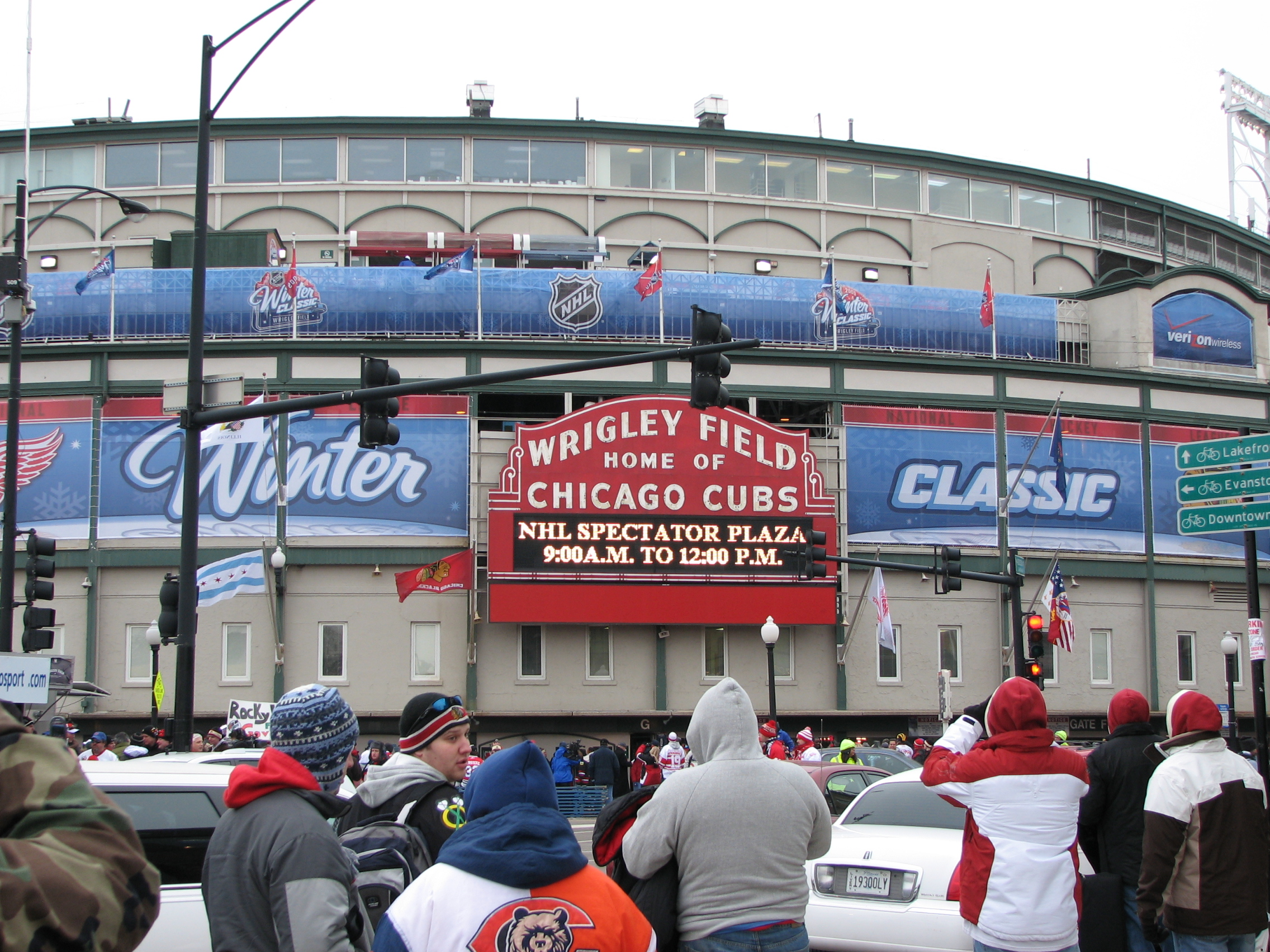 Wrigley Field, Chicago - NHL Winter Classic 2008. Notice how the scoreboard is advertising an event held at the 'NHL Spectator Plaza' (Wrigley Field's 'Triangle Plaza')